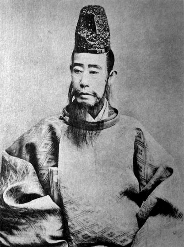 Danjūrō Ichikawa IX (1838–1909) as Shigemoroi Taira in Shigemori Kangen